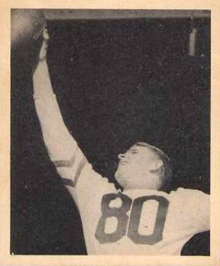 American football player Neill Armstrong on a 1948 Bowman card.